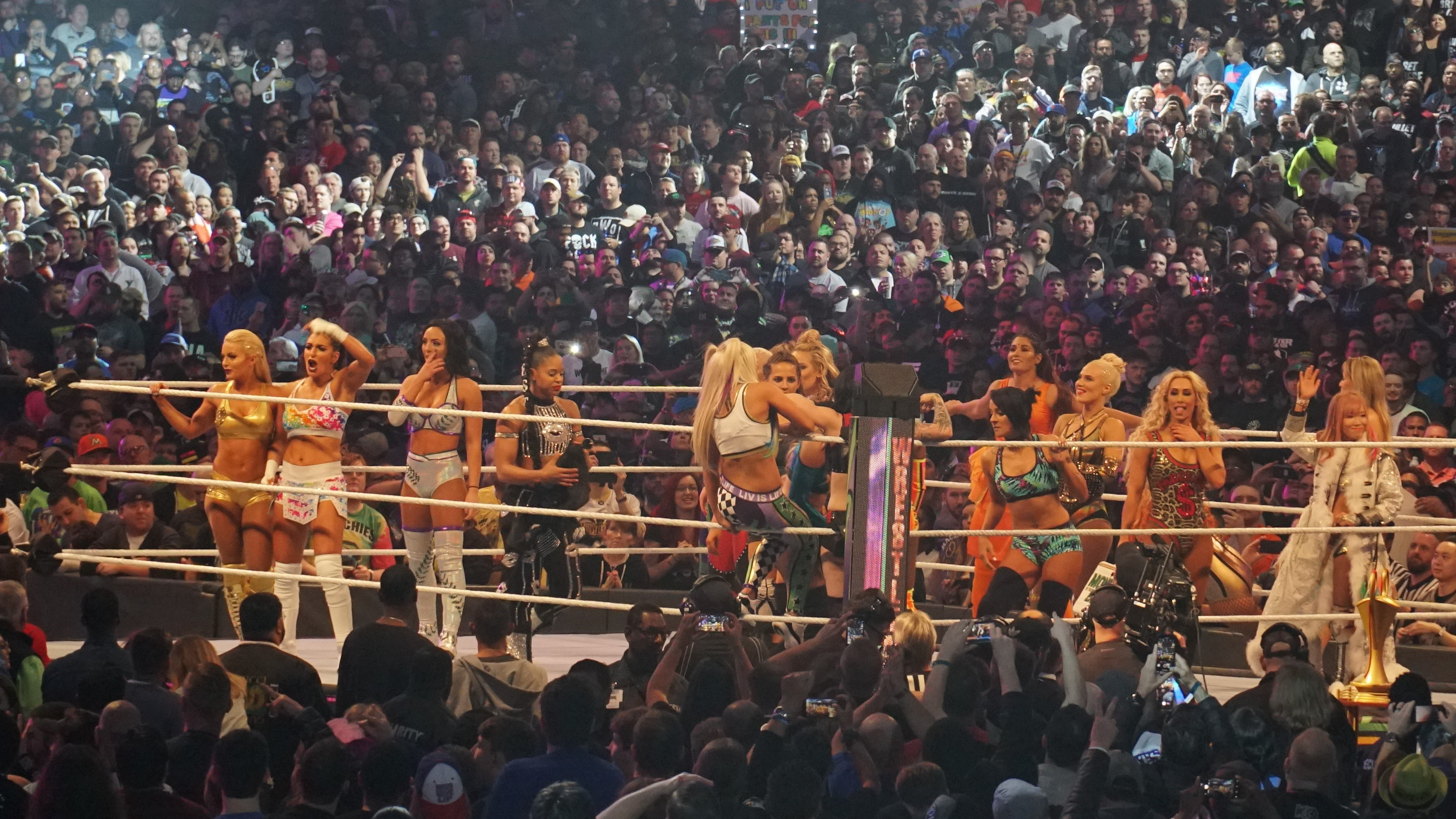 Divas in the ring for a battle royal at WrestleMania 34.